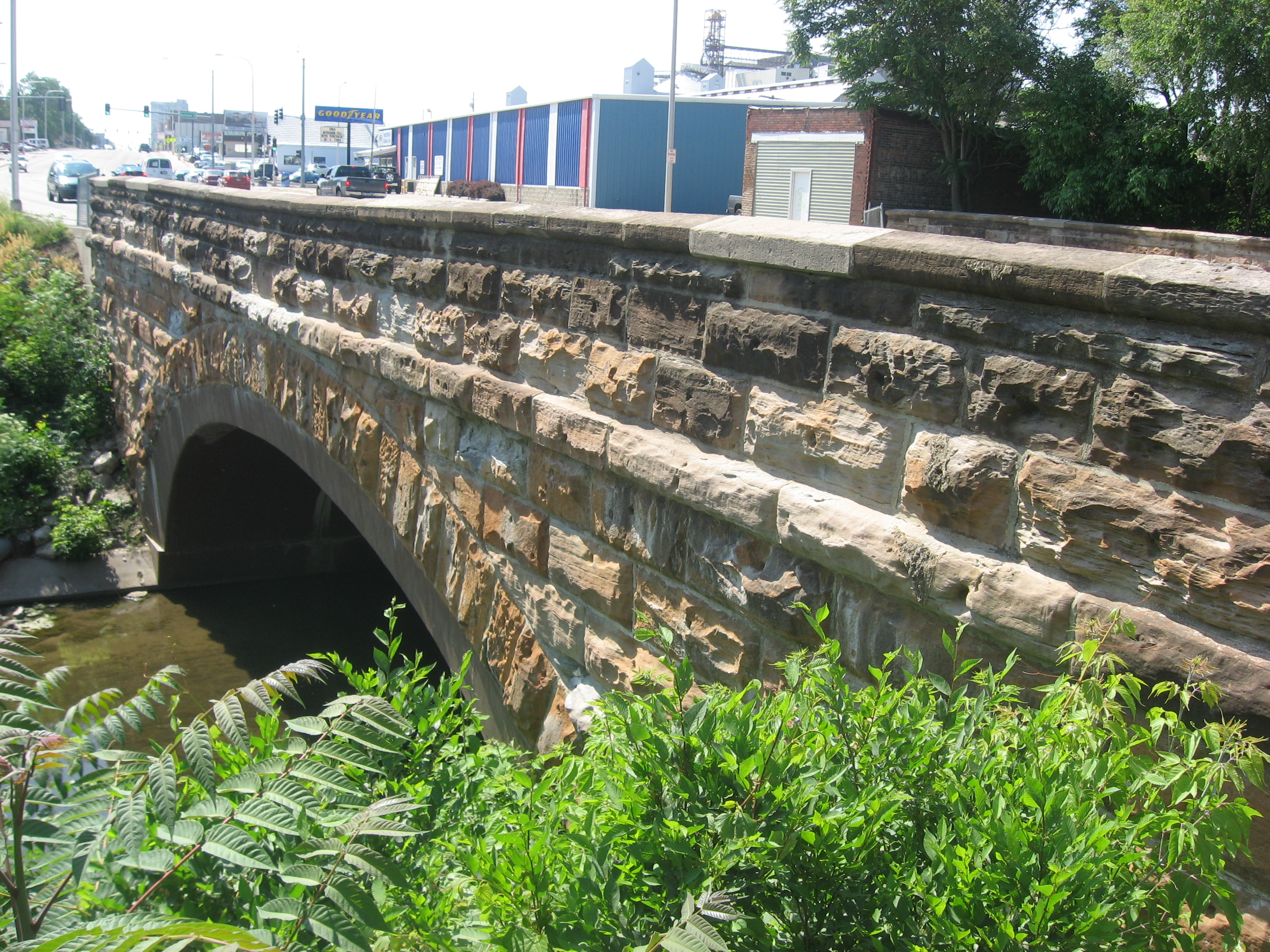 Southern (downstream) side of the Stony Creek Bridge, which carries Main Street (U.S. Route 136) over Stony Creek in Danville, Illinois, United States. Built in 1895 and the only extant segmental arch bridge in eastern Illinois, it is listed on the National Register of Historic Places.